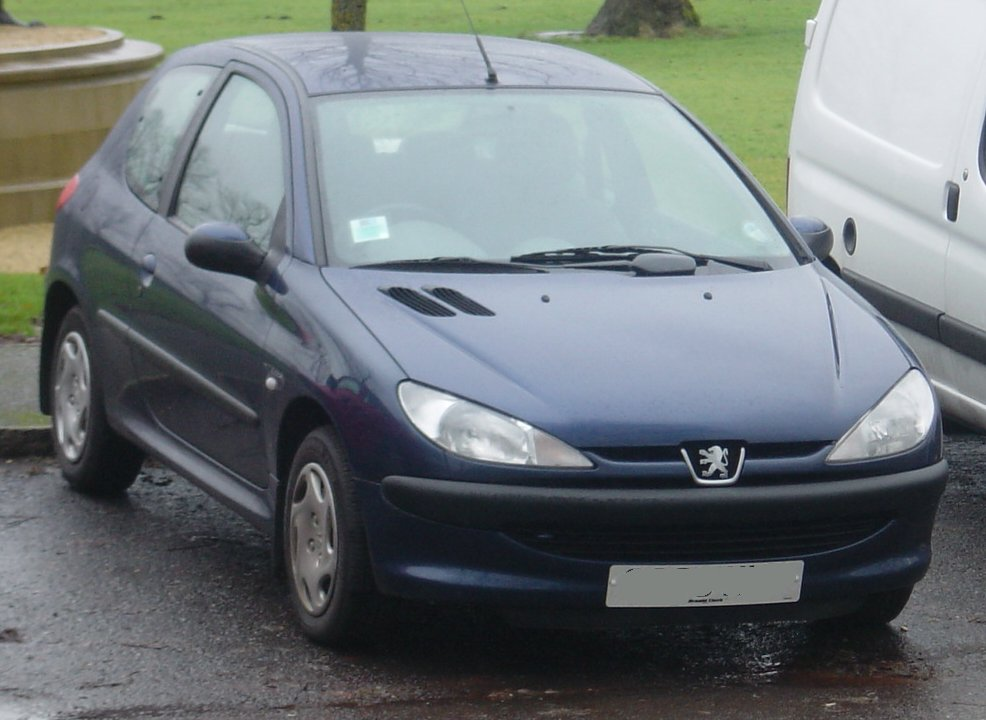 created by Mazurka